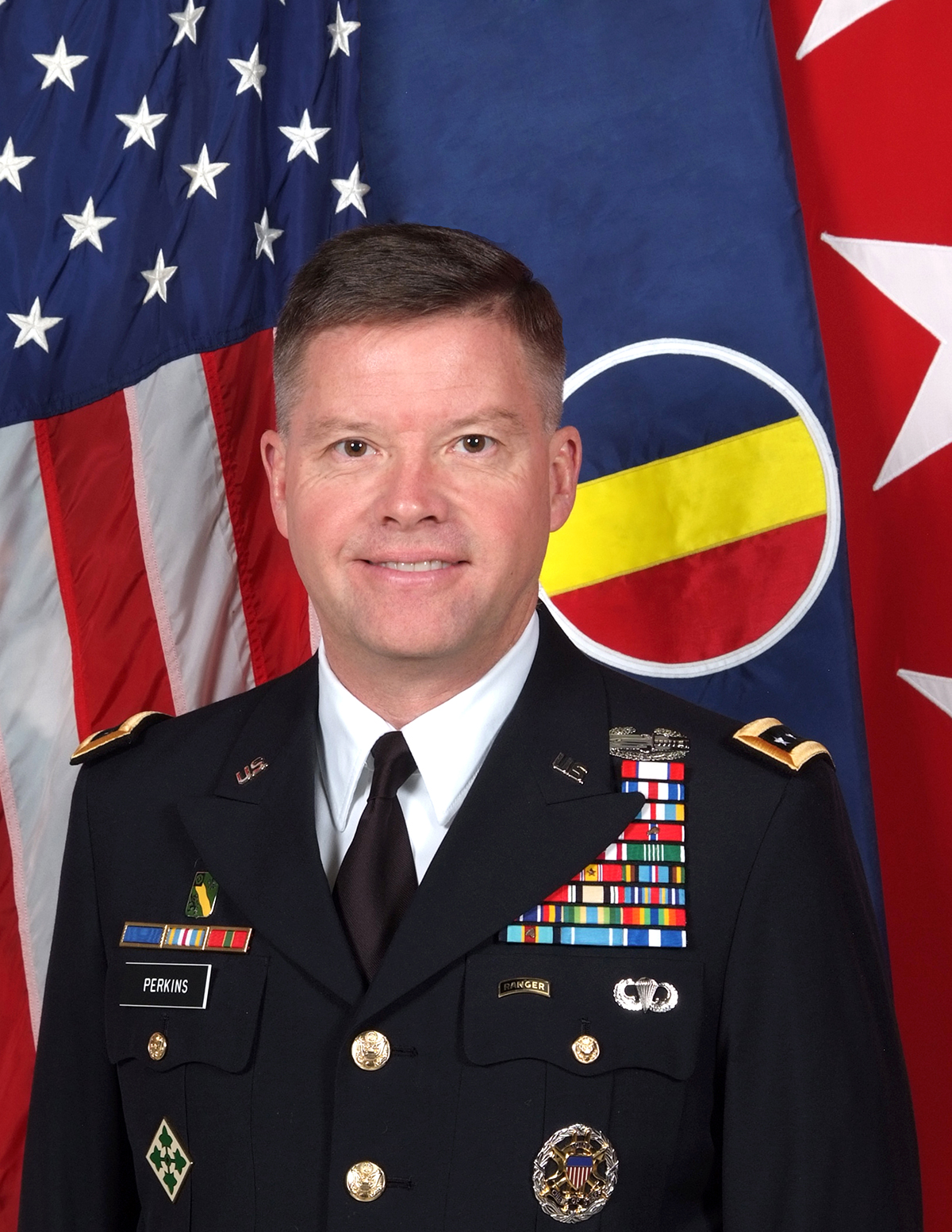 Geneal David G. Perkins, USA Commanding General, U.S. Army Training and Doctrine Command